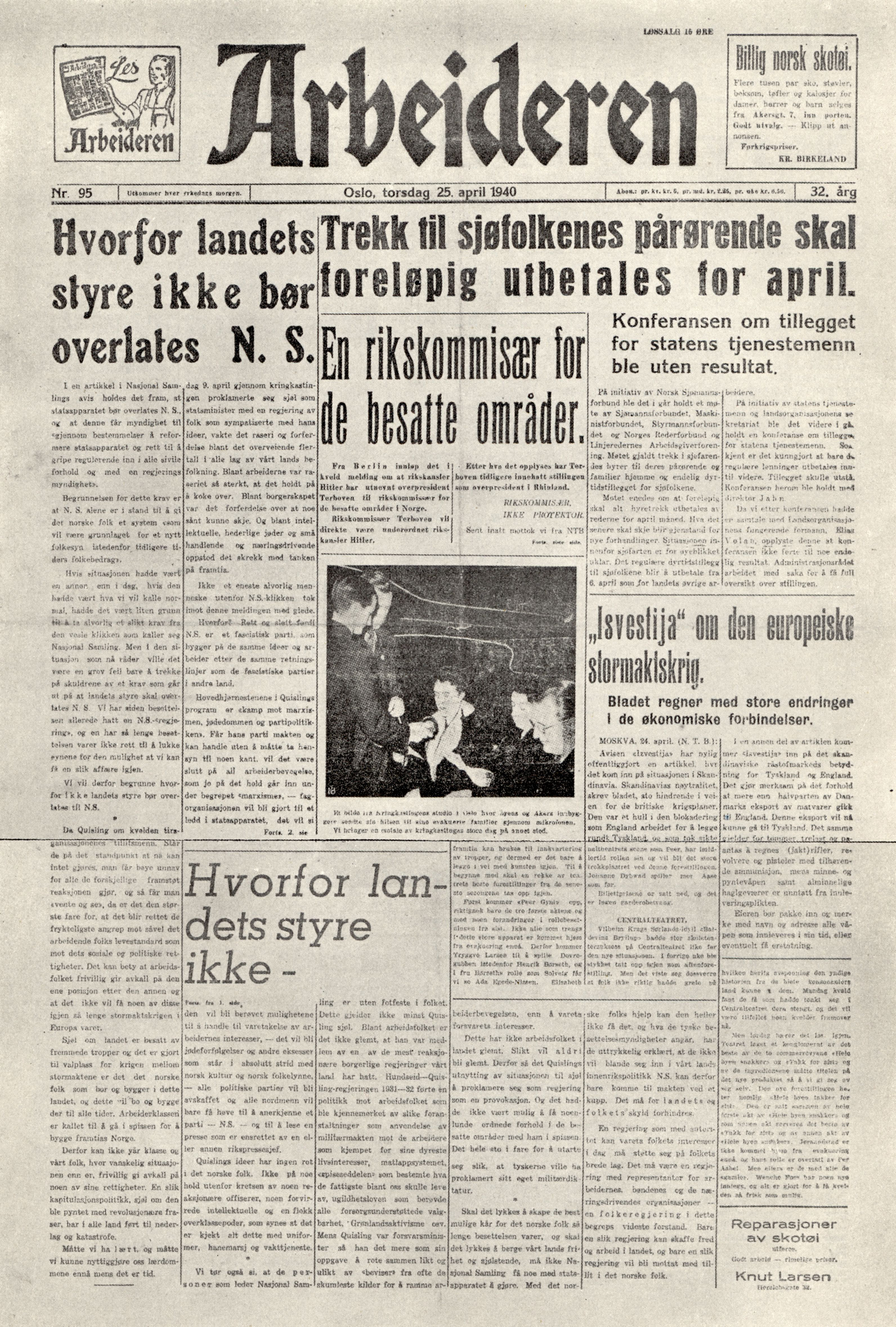 Front page of the newspaper Arbeideren (The Laborer) April 25, 1940. The paper was published by the Communist Party of Norway.